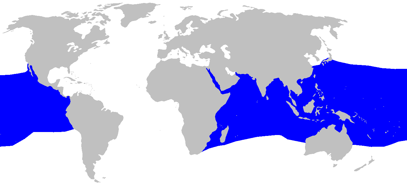 Distribution map for Alopias pelagicus